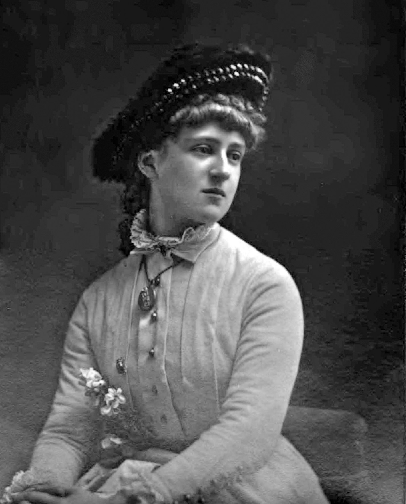 Portrait of Elizabeth Alice Hawkins-Whitshed (1861-1934)